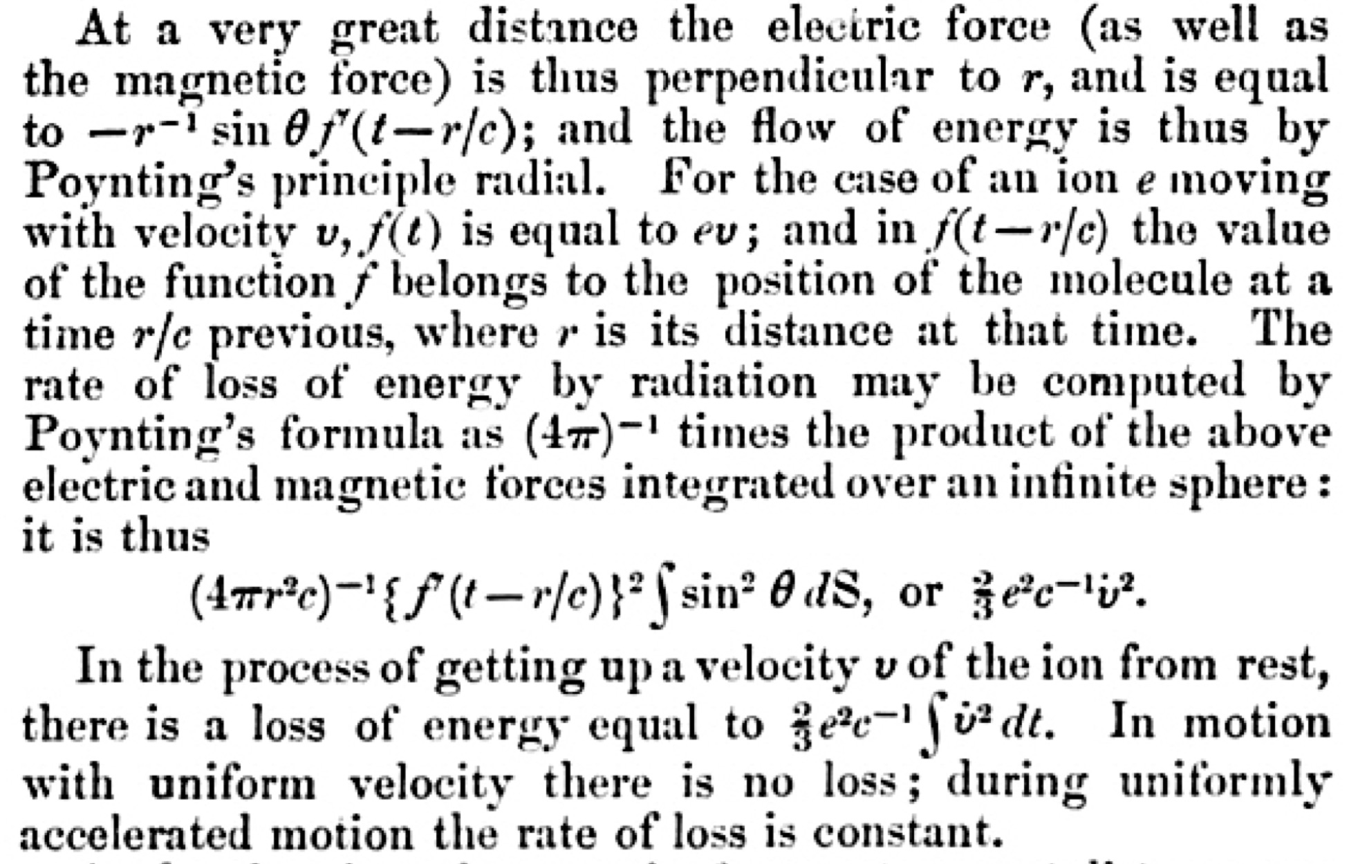 Part of Larmor 1897 Phil. Mag. paper containing his radiation formula